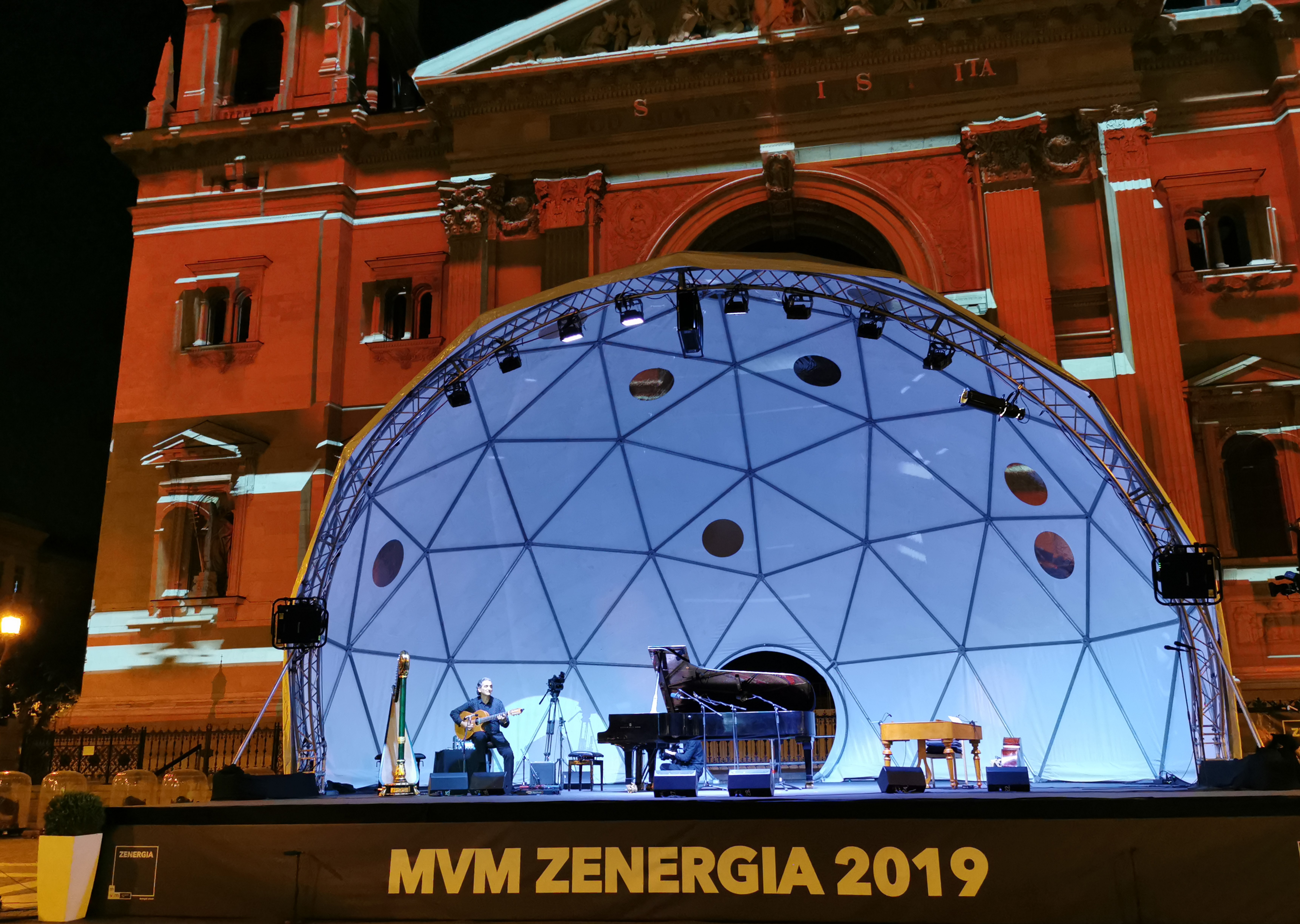 Zenergia 2019. Taken on the 31st of August, 2019. In front of Basilika, Budapest.